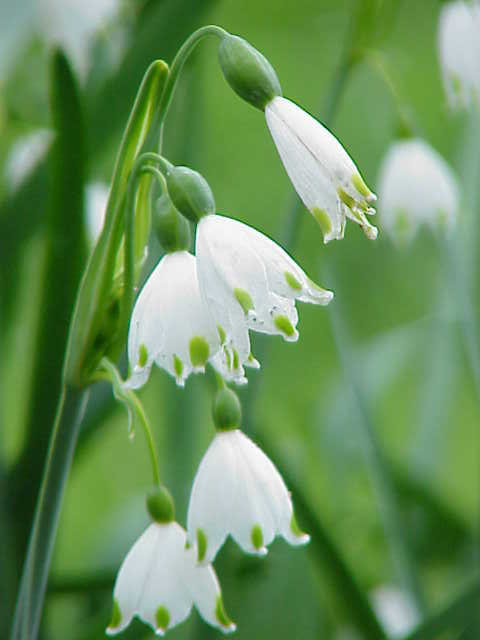 Species: Leucojum aestivum Family: Amaryllidaceae Image No. 5